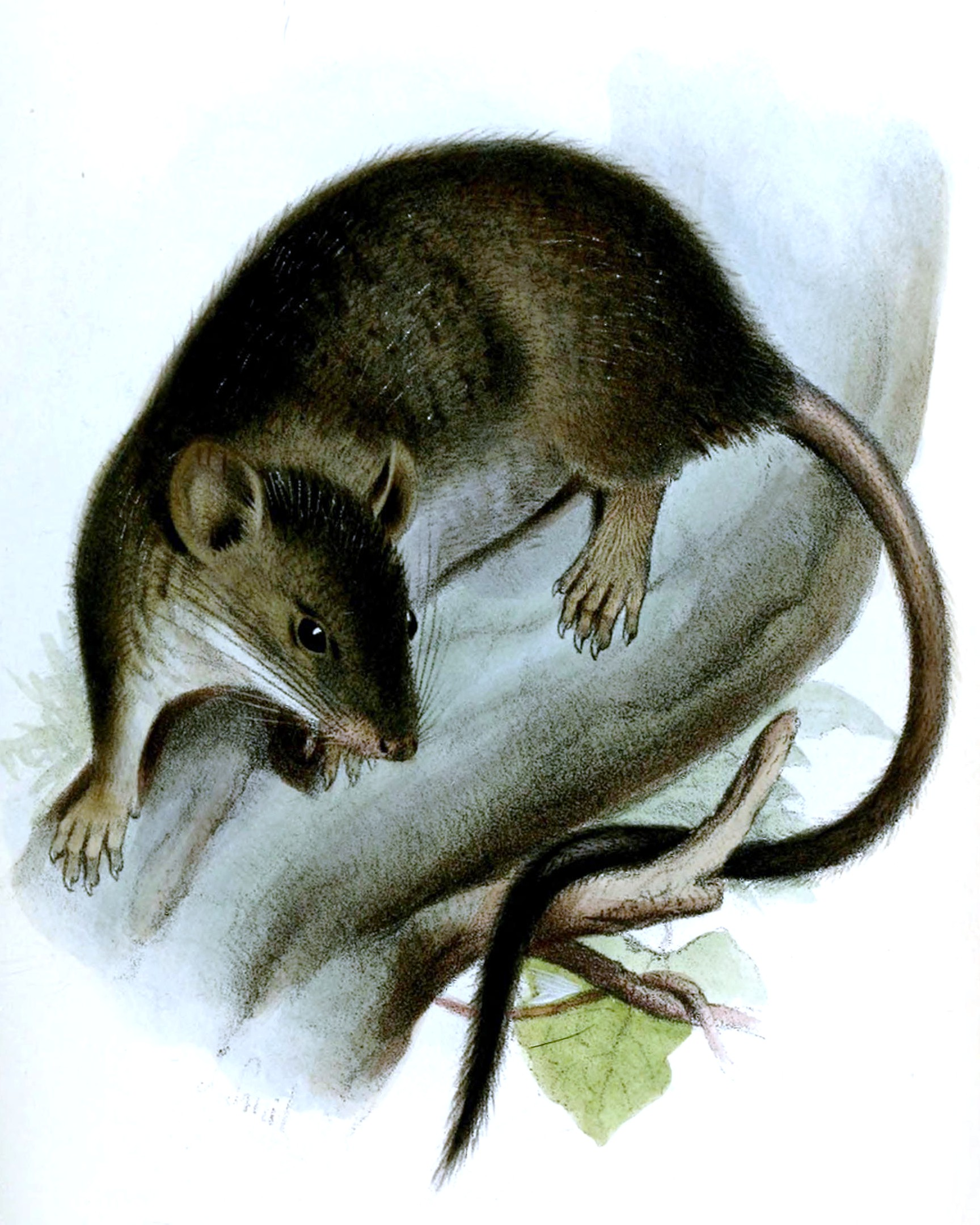 Hesperomys (Rhipidomys) sclateri = Rhipidomys leucodactylus The original artwork has been cropped by the uploader